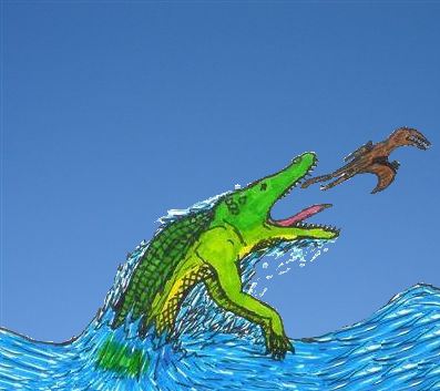 A Hsisosuchus tries to catch an Angustinaripterus.